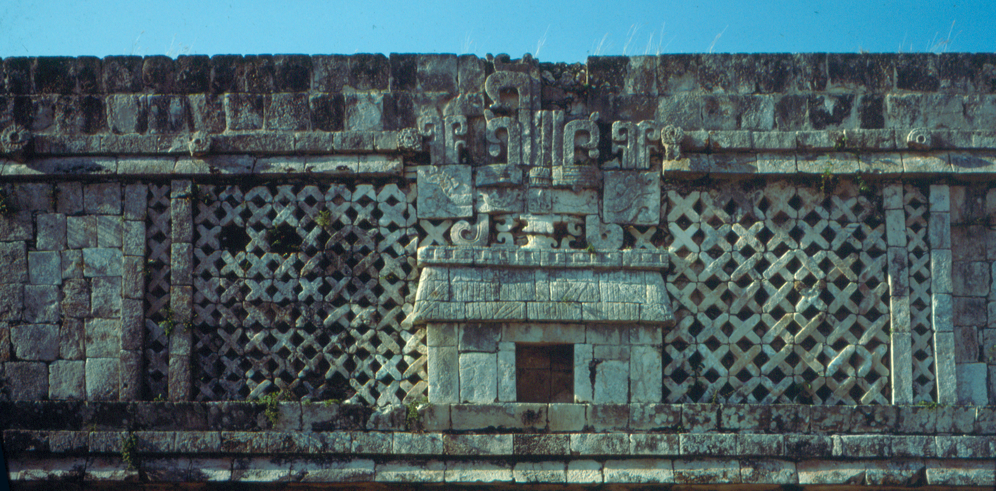 Uxmal, Yucatan, Mexico: Nunnery, southern building, detail.